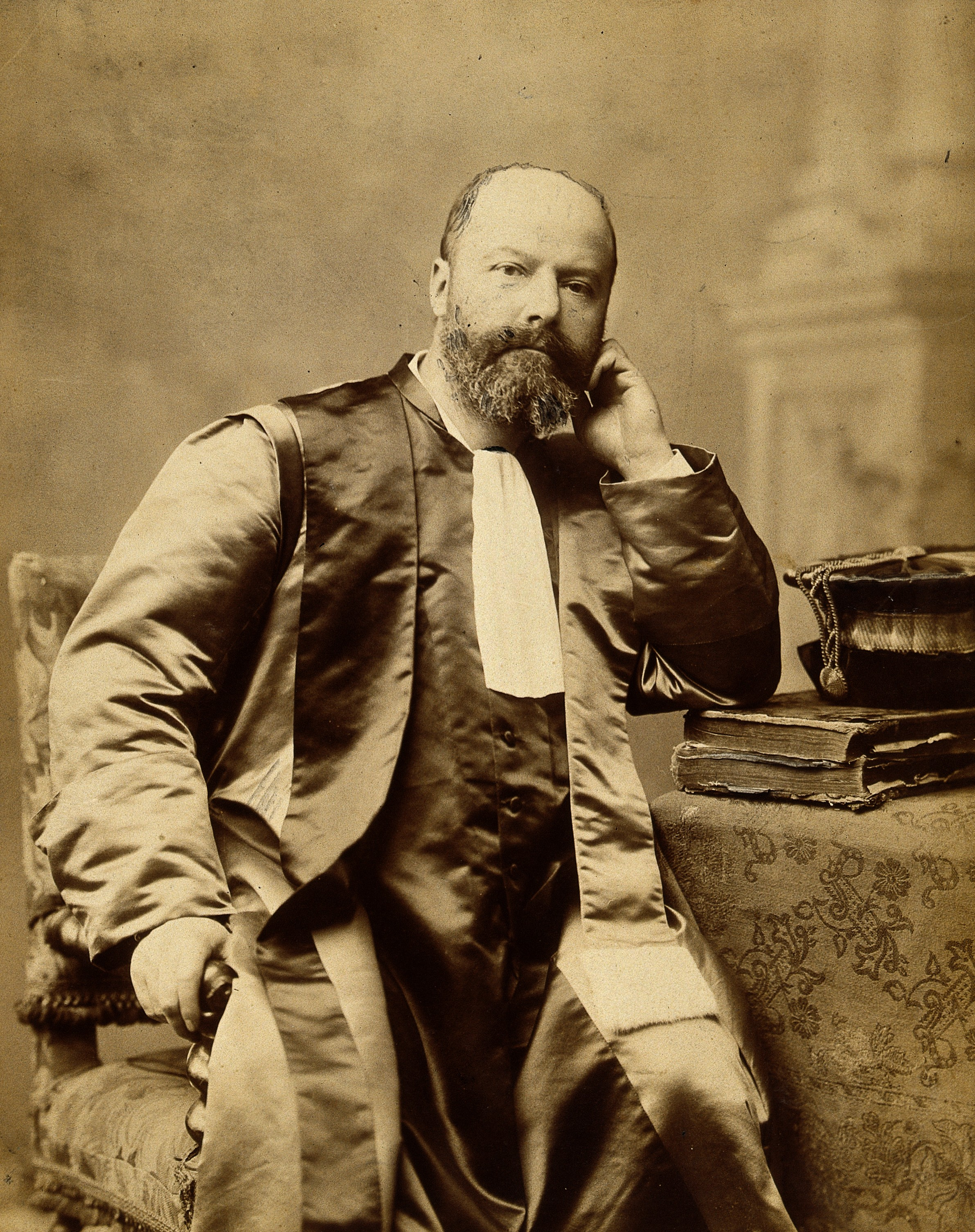 Adolphe Pinard. Photograph by Pierre Petit. Iconographic Collections Keywords: portrait photographs